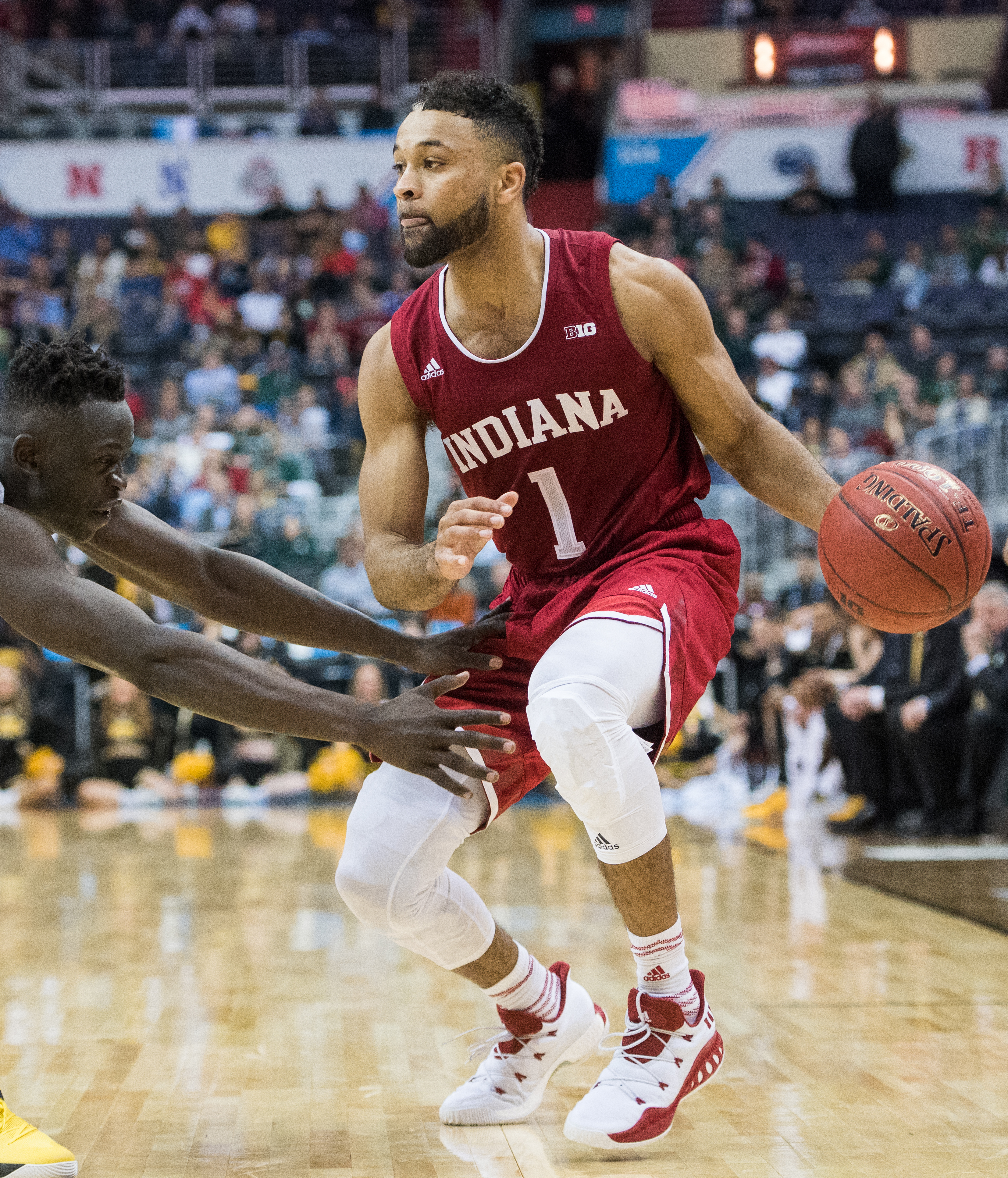 Indiana's James Blackmon Jr.